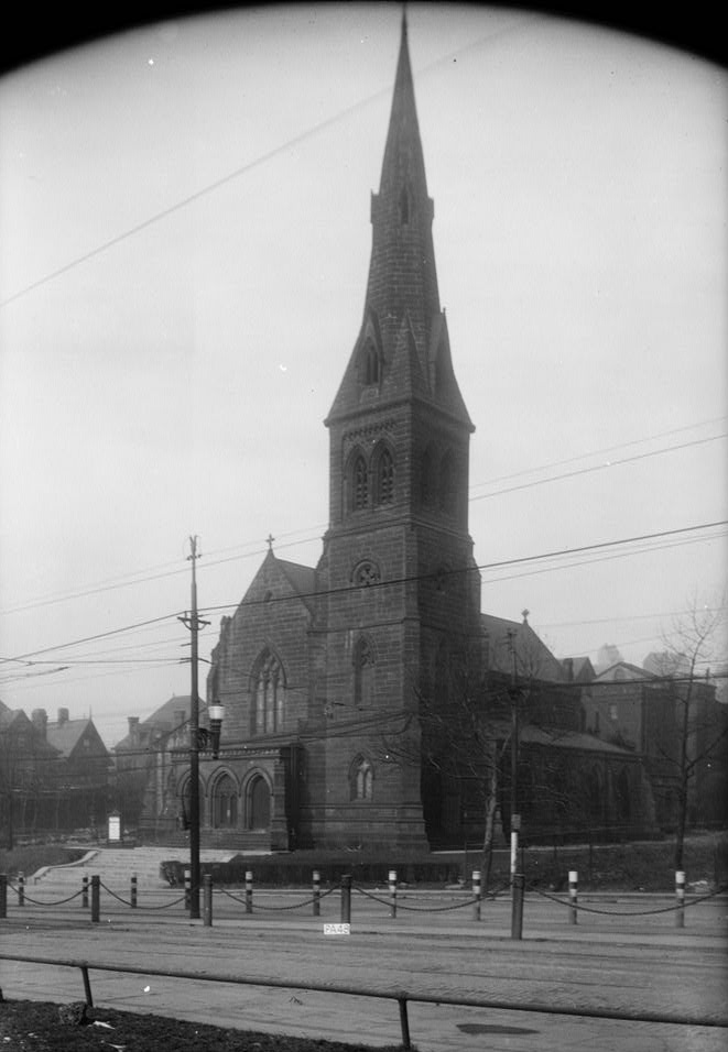 St.Peter's Protestant Episcopal Church, Forbes Street & Craft Avenue (moved from Grant Str), Pittsburgh, Allegheny County, PA